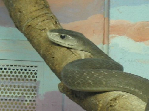 A black mamba (Dendroaspis polylepis).